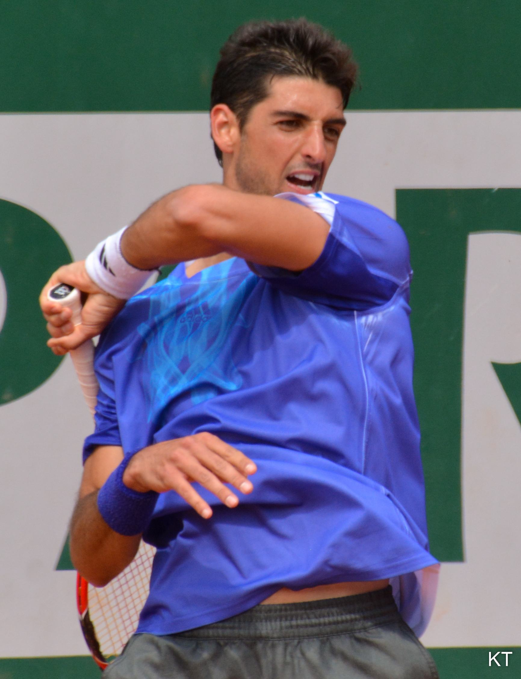 Thomaz Bellucci in his first round match with Marinko Matosevic. Bellucci won 6-1, 6-2, 6-4. Day 2 of Roland Garros 2015.